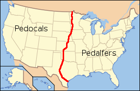 Soil boundary separating pedocals from pedalfers